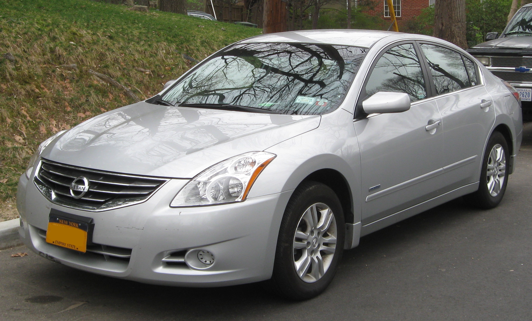 2011-2012 Nissan Altima Hybrid photographed in Washington, D.C., USA.